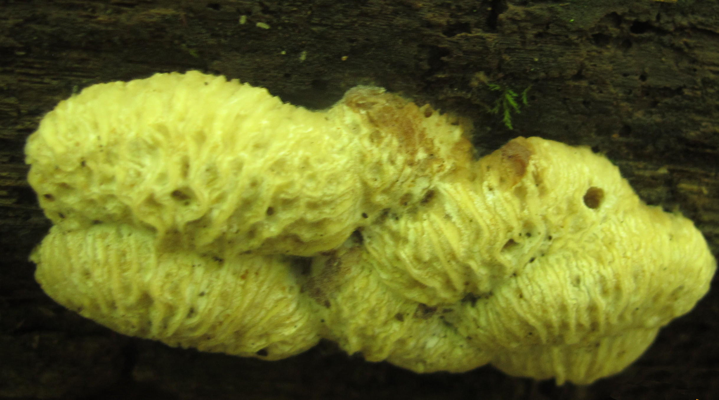 Nectriopsis tremellicola (Ellis & Everh.) W. Gams Image location: James H. Barrow Field Station, Hiram, Ohio, USA Host is Crepidotus. Recognized by sight For more information about this, see the observation page at Mushroom Observer.